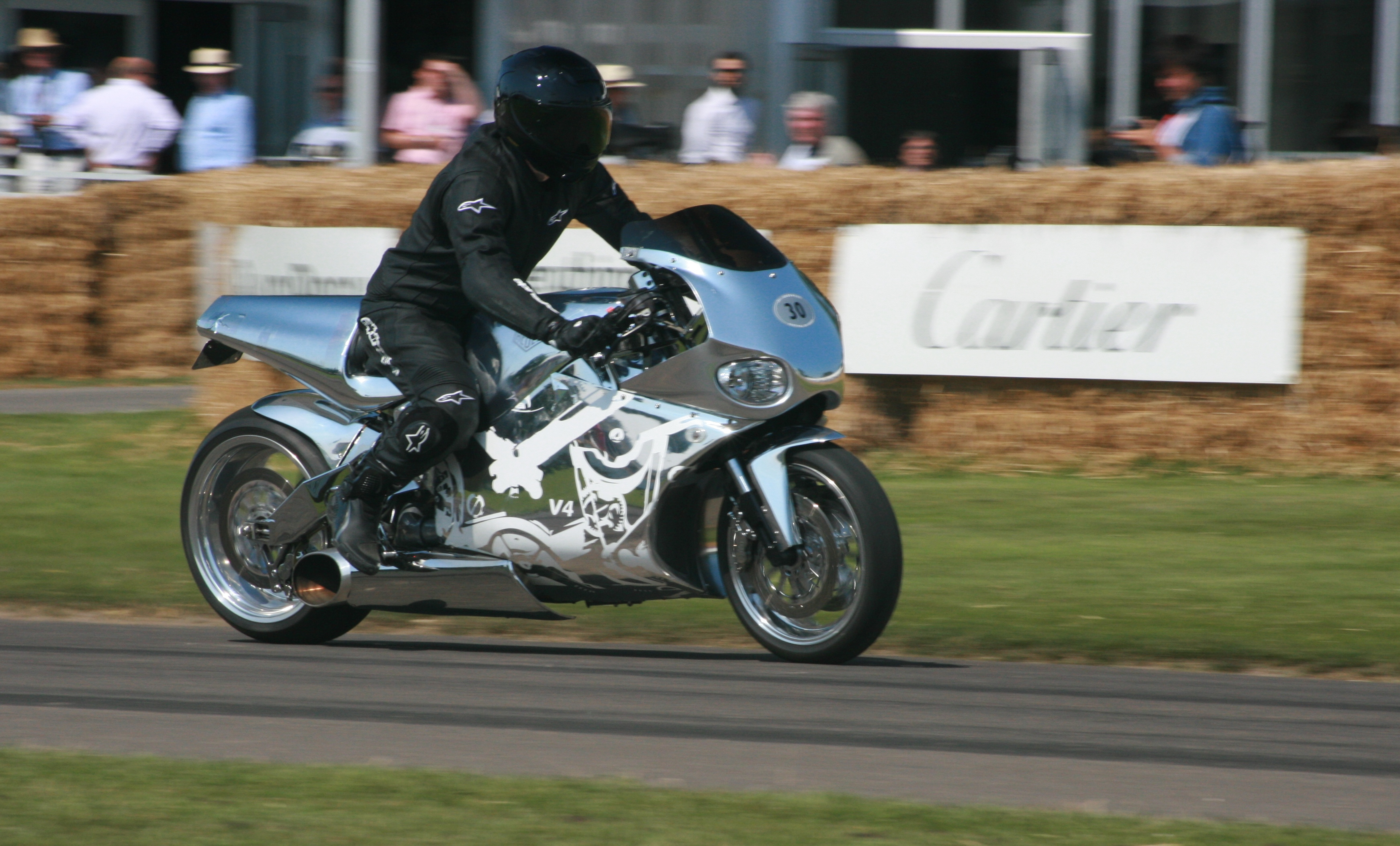 Powered by a gas turbine engine normally reserved for helicopters - gives 420bhp!